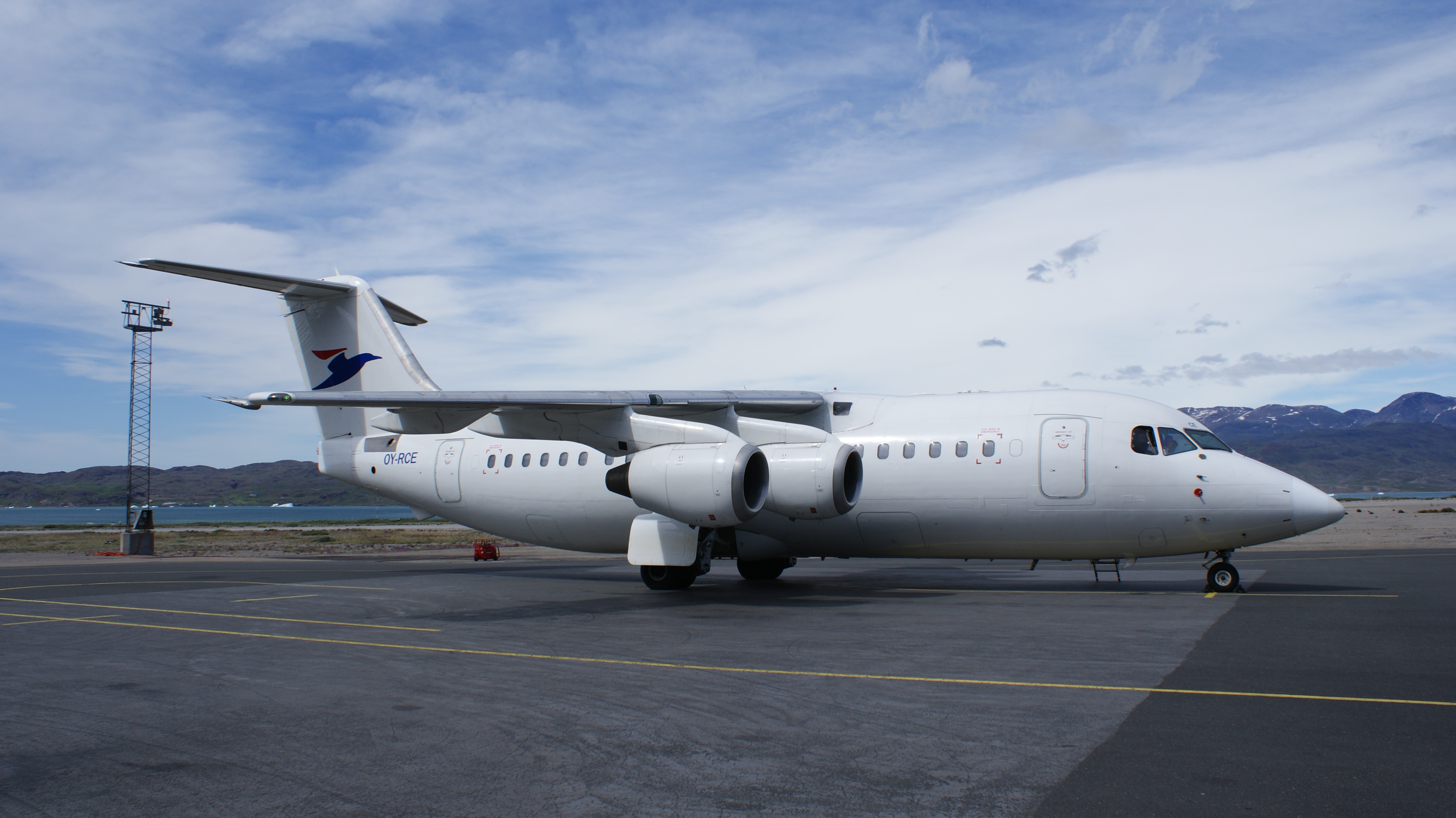 Atlantic Airways Avro RJ85 at Narsarsuaq Airport, Greenland